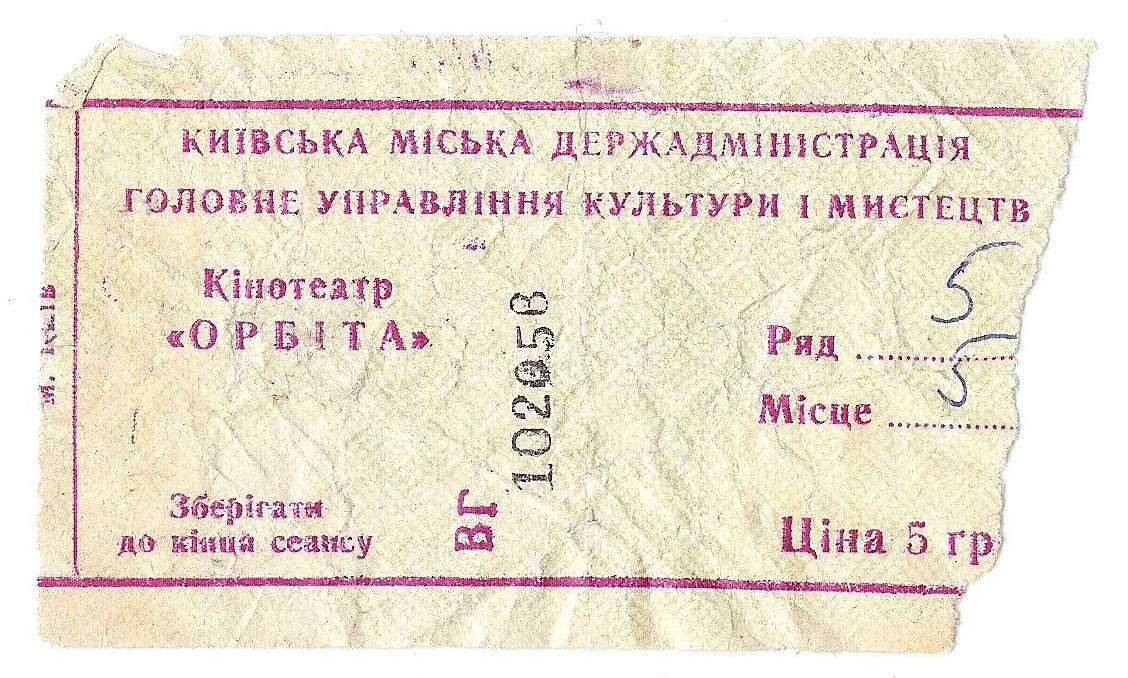 Ticket from closed 3D-cinema in Kiev.